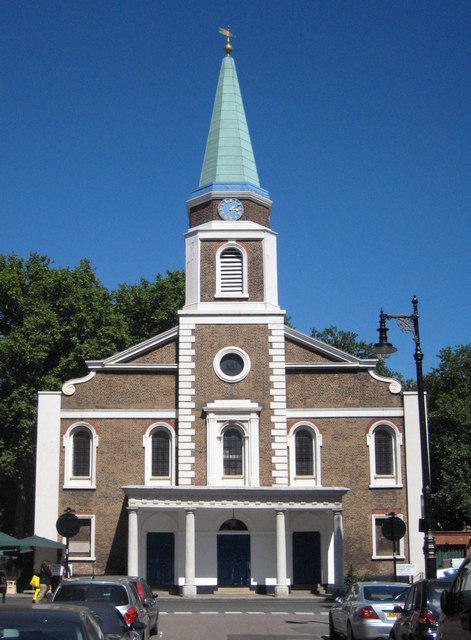 Grosvenor Chapel, South Audley Street, Mayfair, London W1, seen from the west